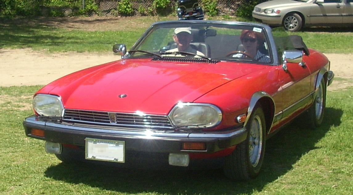 Jaguar XJS photographed at the 2008 Hudson British Car Show